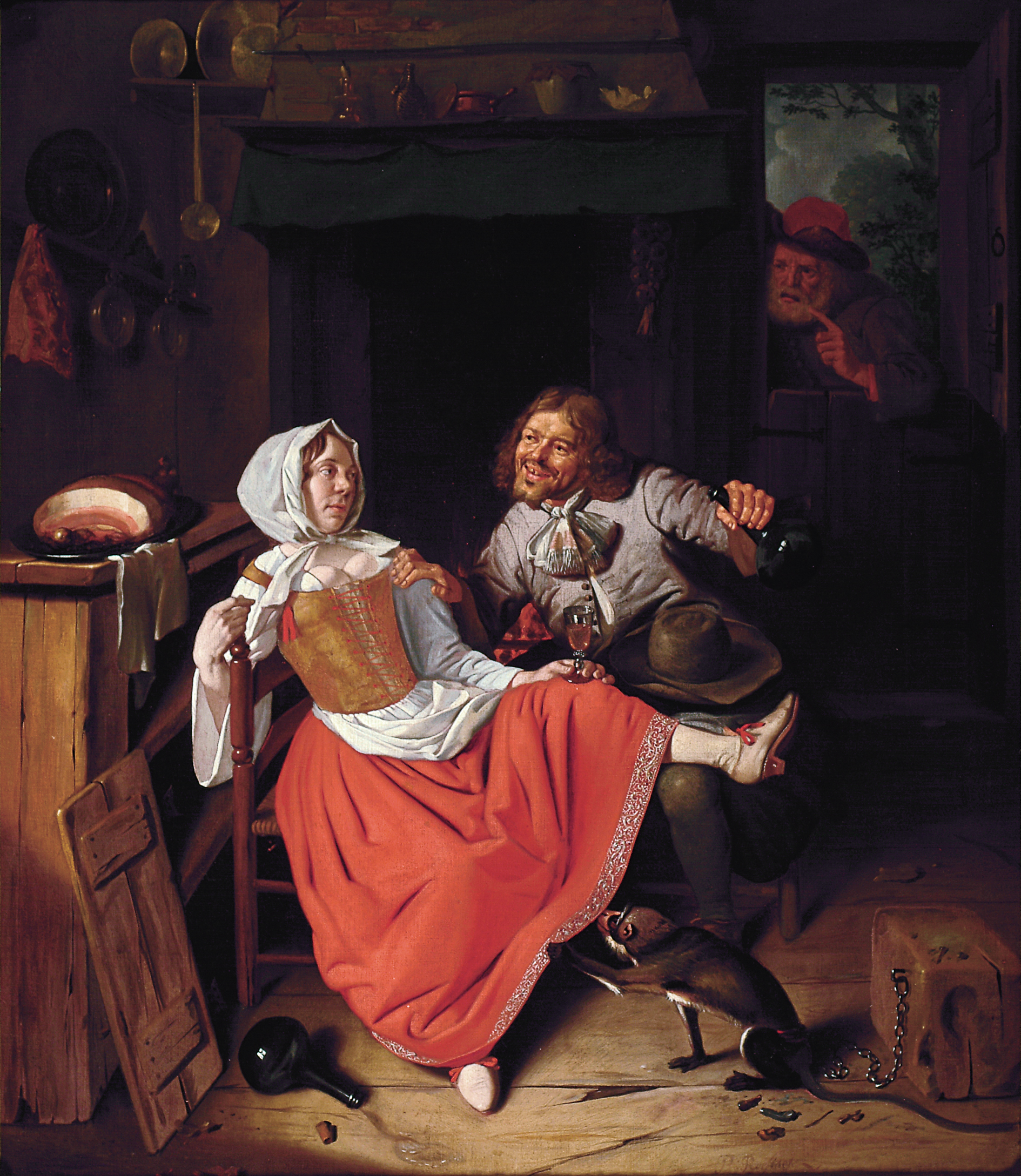 The declaration of love oil on canvas 73,5 x 63 cm 1645 - 1699